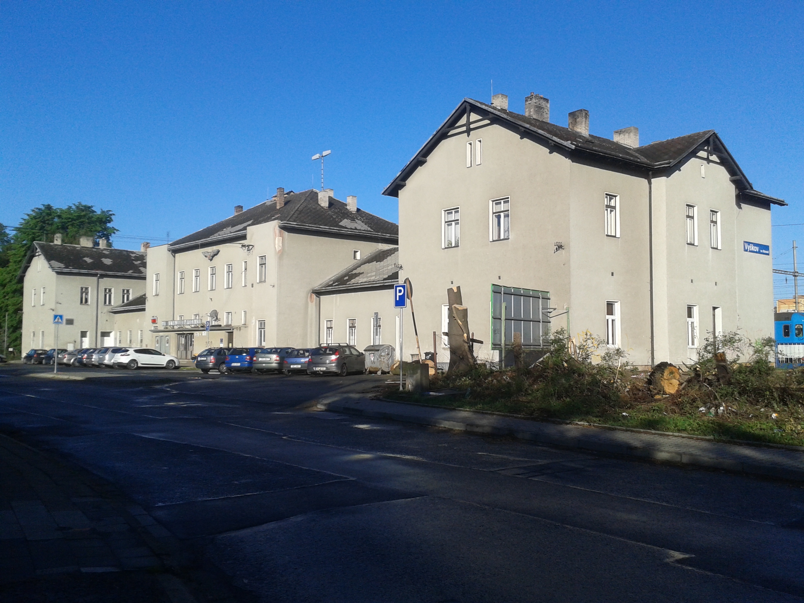 Vyškov, Czech Republic. Train station.